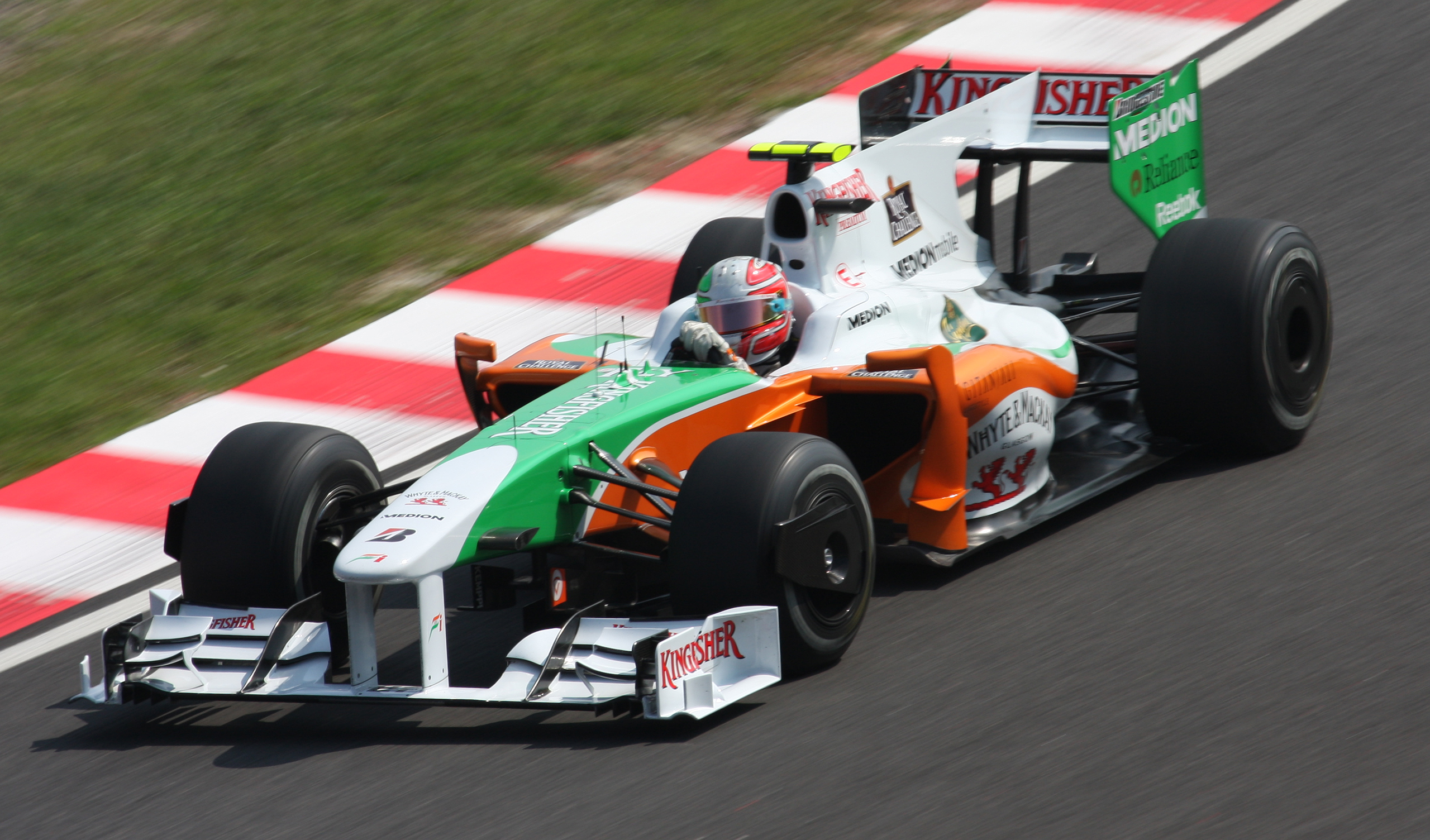 Formula One 2009 Rd.15 Japanese GP: Vitantonio Liuzzi (Force India) running in Saturday 3rd Free Practice session.